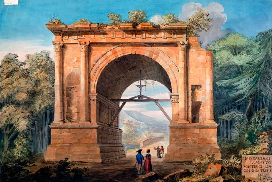 Arch of Augustus, Aosta by Henry Seward, 1807, Sir John Soane’s Museum